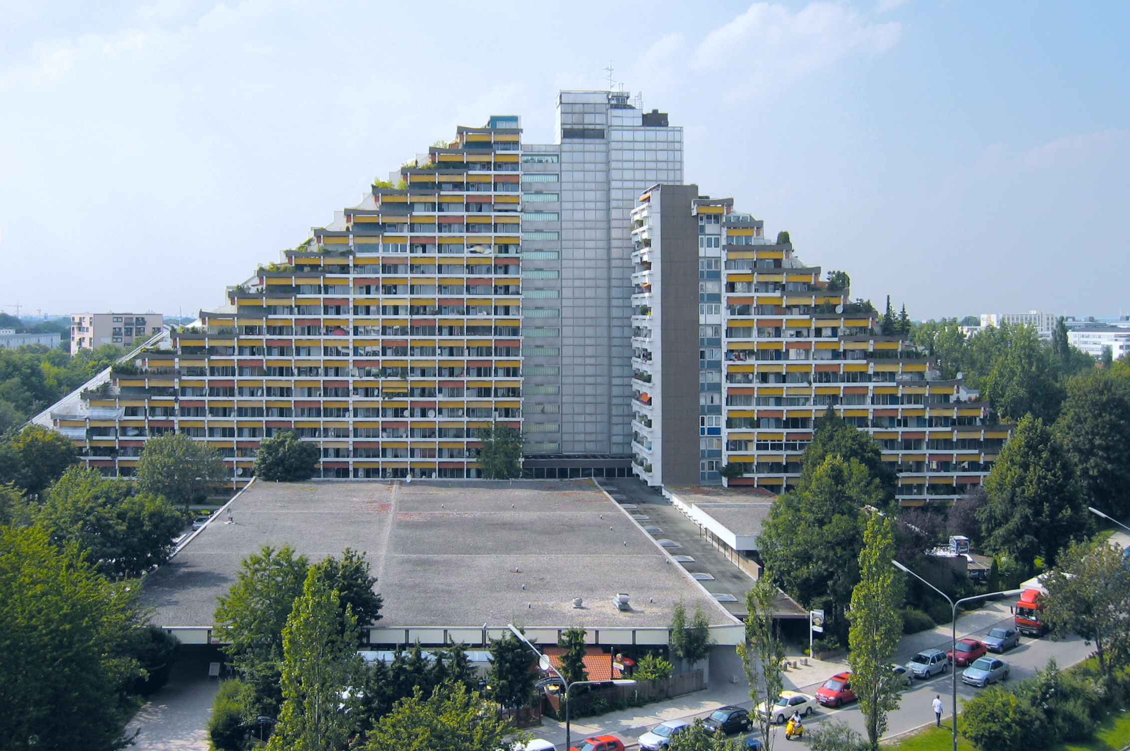 Pharao-Haus (Pharao-Building), East Viewing, in Munich, Bavaria.